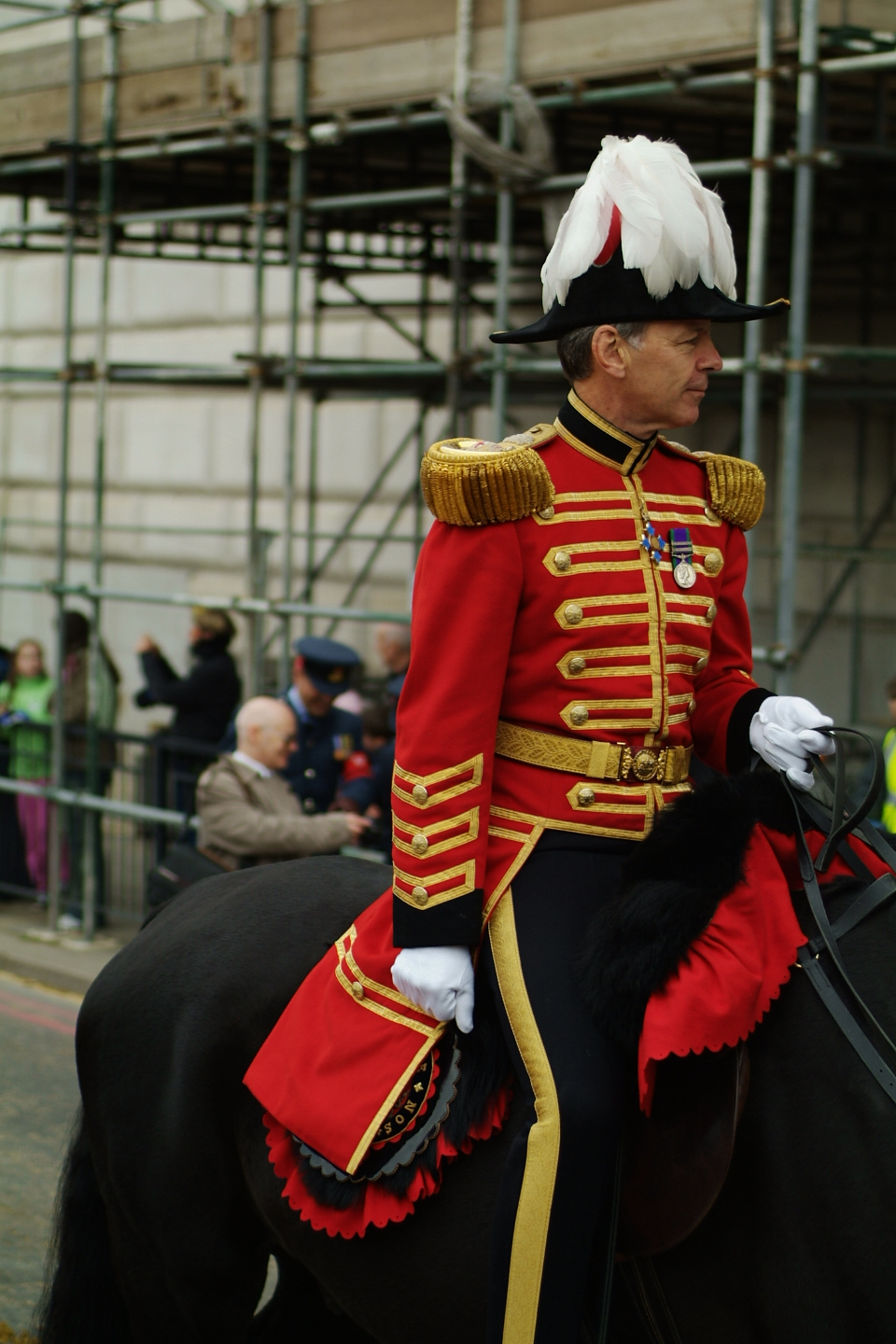 Lord Mayor's Show, London 2006